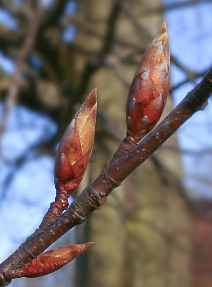 beech flower